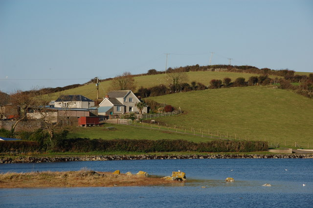 Strangford Lough at Ballydorn. Many of the islands in Strangford Lough are drowned drumlins. This is Hen Island seen from the shore at Ballydorn near Killinchy.